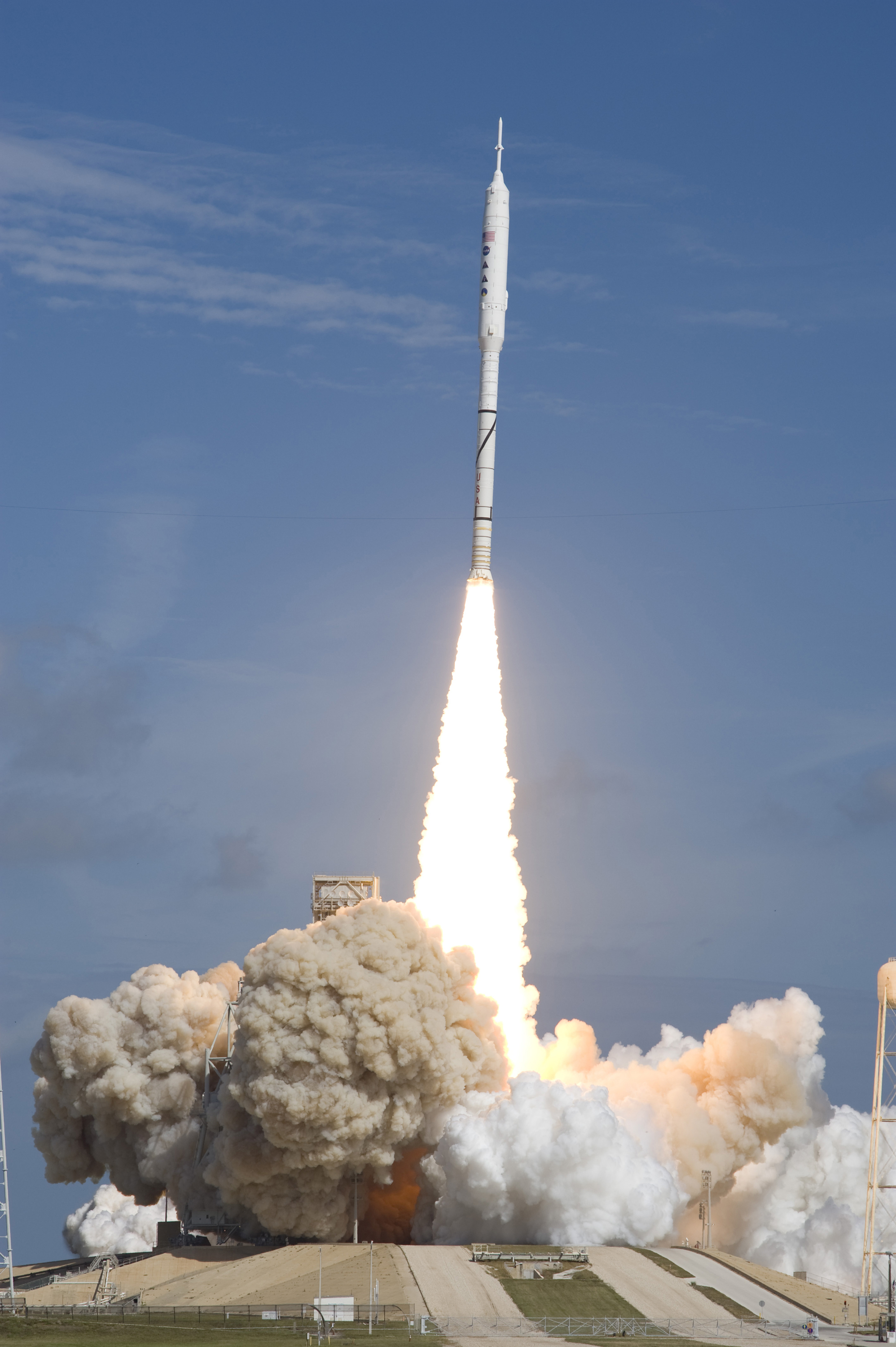 CAPE CANAVERAL, Fla. - With more than 12 times the thrust produced by a Boeing 747 jet aircraft, the Constellation Program's Ares I-X test rocket roars off Launch Complex 39B at NASA's Kennedy Space Center in Florida. The rocket produces 2.96 million pounds of thrust at liftoff and goes supersonic in 39 seconds. Liftoff of the 6-minute flight test was at 11:30 a.m. EDT Oct. 28. This was the first launch from Kennedy's pads of a vehicle other than the space shuttle since the Apollo Program's Saturn rockets were retired. The parts used to make the Ares I-X booster flew on 30 different shuttle missions ranging from STS-29 in 1989 to STS-106 in 2000. The data returned from more than 700 sensors throughout the rocket will be used to refine the design of future launch vehicles and bring NASA one step closer to reaching its exploration goals. For information on the Ares I-X vehicle and flight test, visit